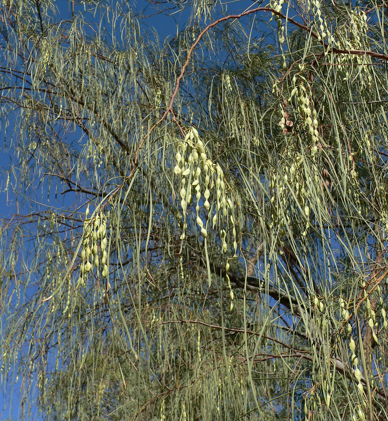 Acacia stenophylla at the Ethel M Botanical Cactus Garden, Las Vegas, Nevada